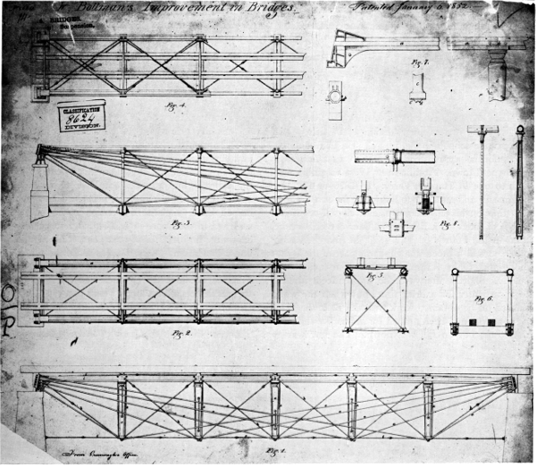 Title: The Engineering Contributions of Wendel Bollman Author: Robert M. Vogel Release Date: October 20, 2010 [EBook #33912] and specifically Page 82 Original caption Figure 5.—Bollman’s original patent drawing, 1851. (In National Archives, Washington, D.C.)